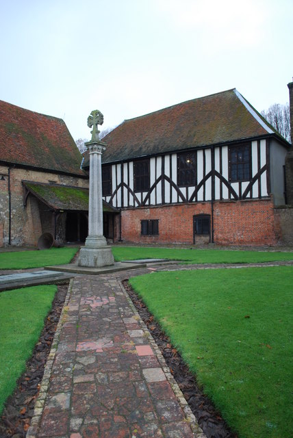 Prittlewell priory, near to Prittlewell, Southend-on-Sea, Great Britain.